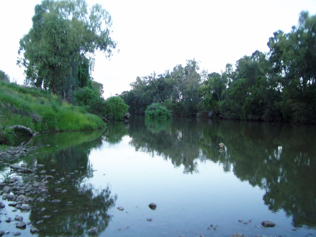 The Gwydir River, just down from my fathers property in Pallamallawa